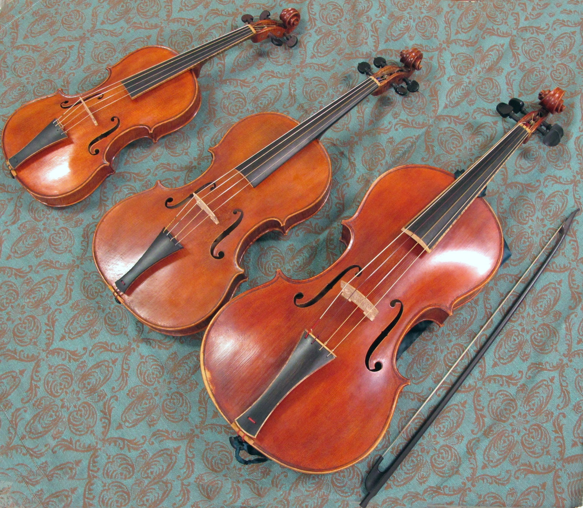 Quinte de Violon, Viola 42 cm, Violin